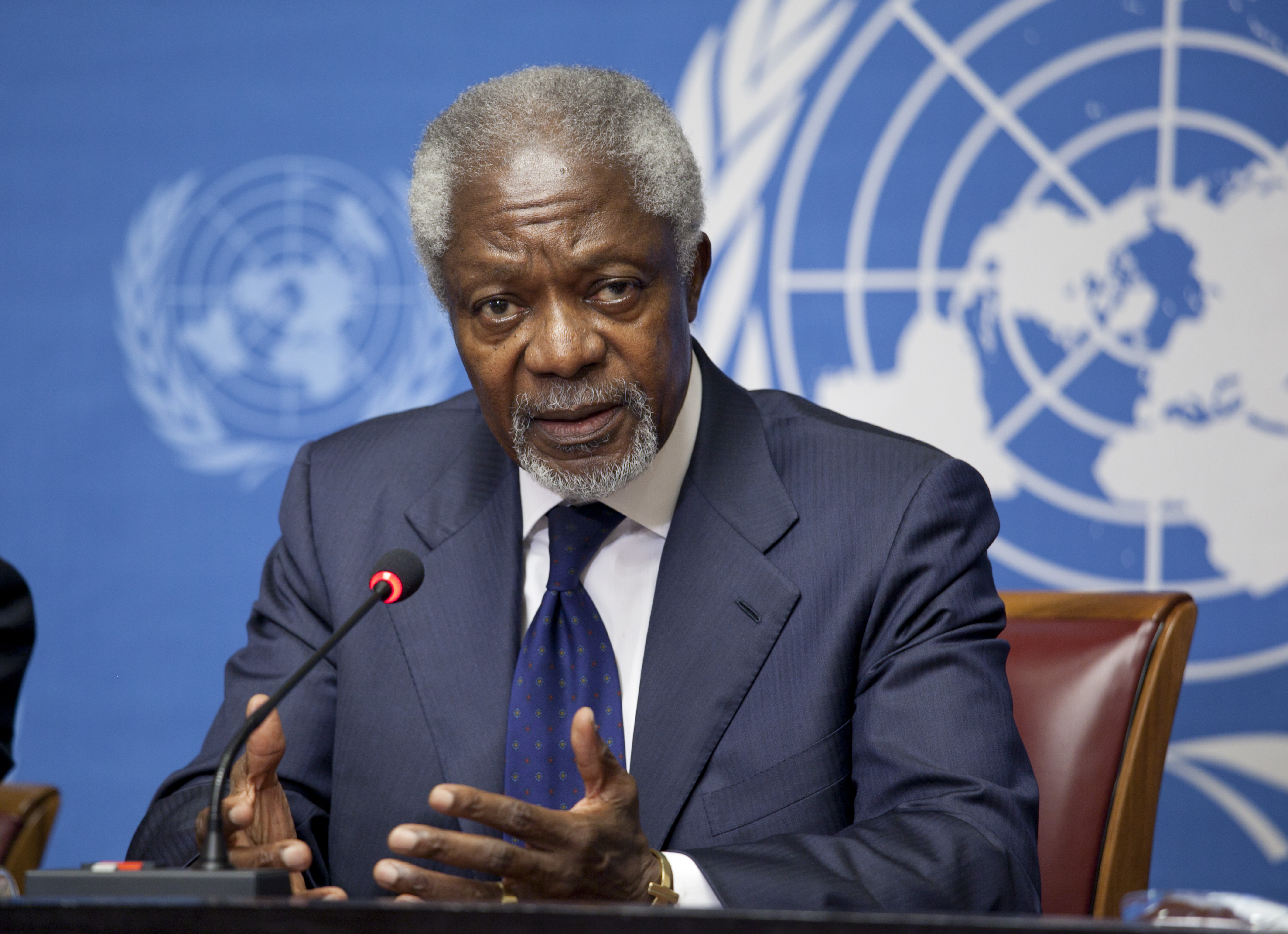 Joint Special Envoy Kofi Annan spoke with the media at the United Nations Office at Geneva following the June 30, 2012 Meeting of the Action Group for Syria.